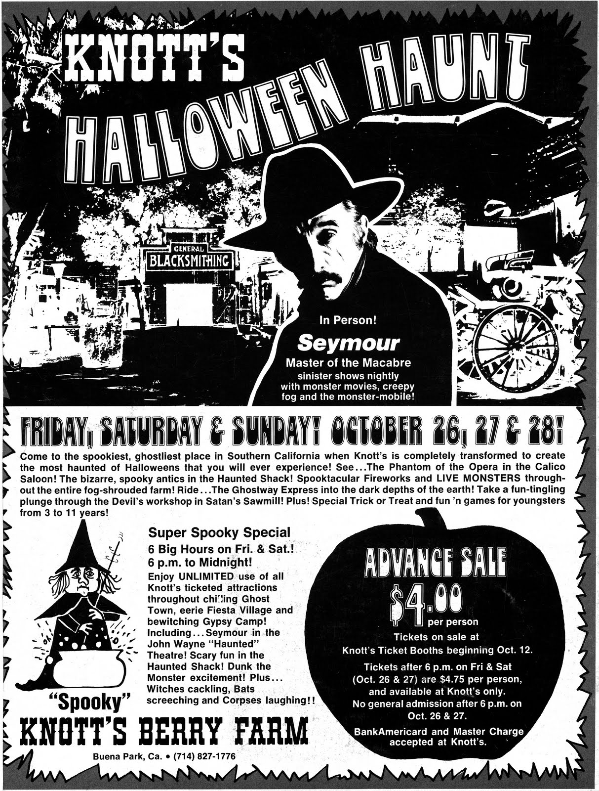 1973 poster advertisement for the Haunted Shack and other attractions at Knott's Berry Farm